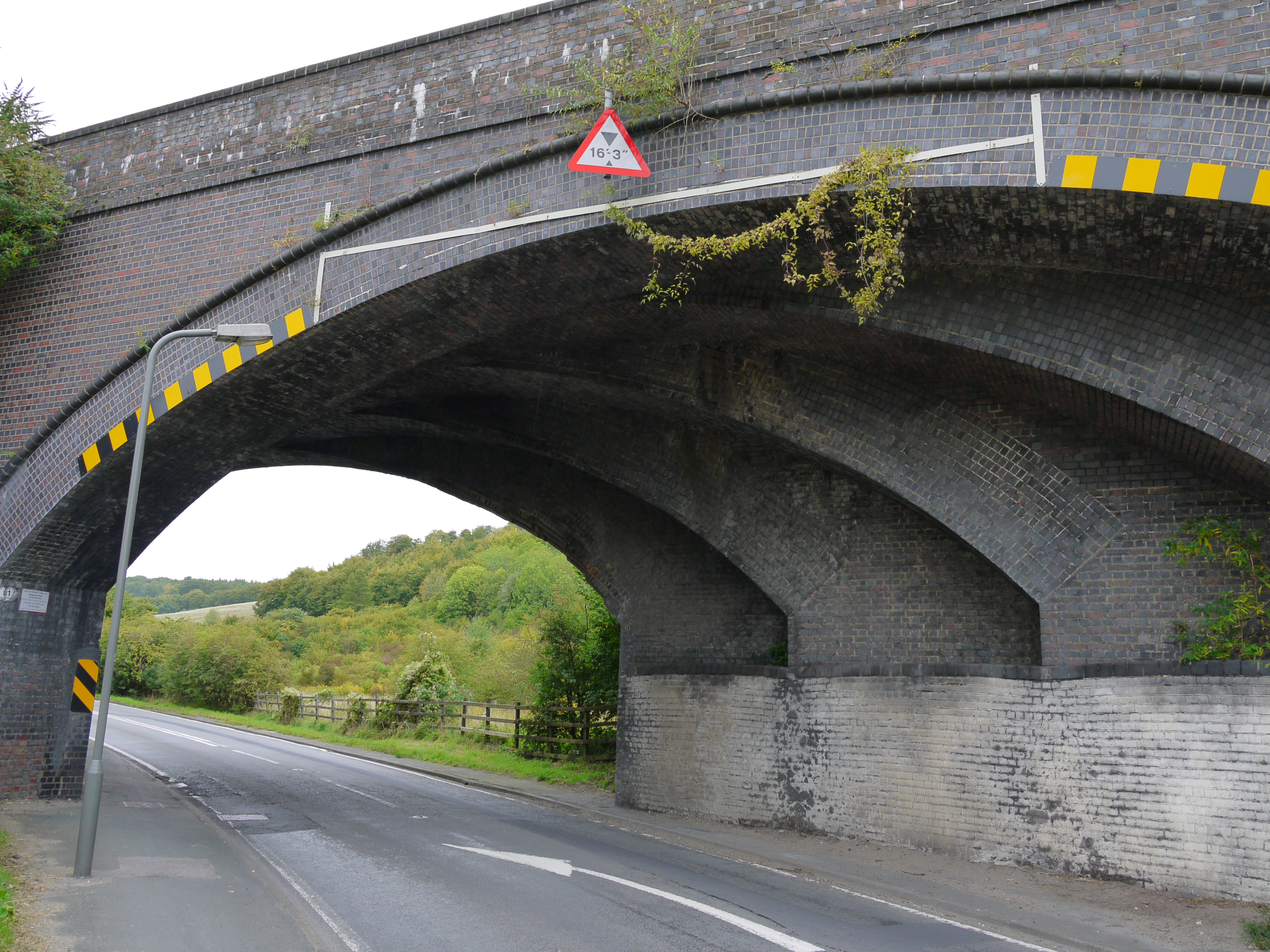 Ribbed skew arch bridge in blue brick carrying the Chiltern Main Line over the A4010 road near West Wycombe, Buckinghamshire